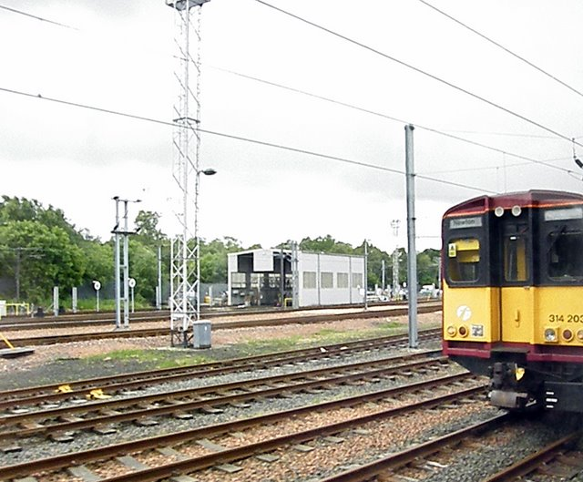 Corkerhill Depot The east end of the depot which is between Corkerhill and Dumbreck stations on the Paisley Canal line.